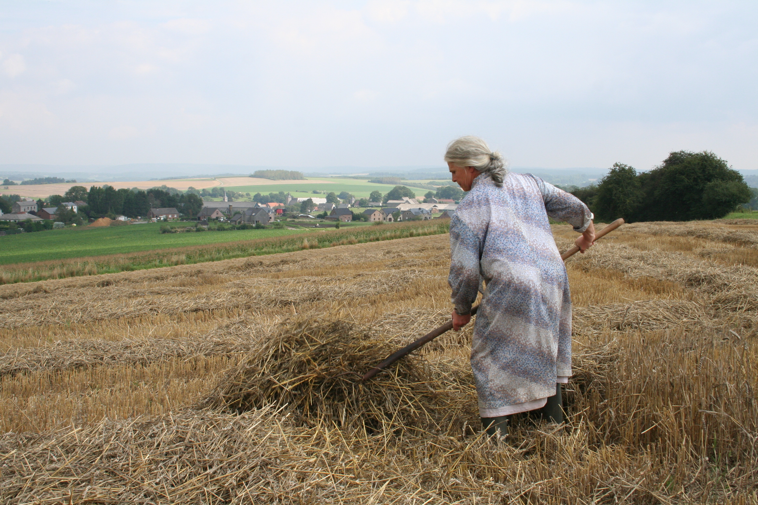 Falaën (Belgium), the drying of the straw.